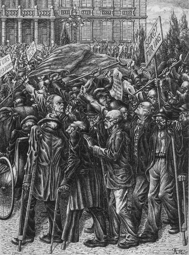 drawing of Fritz Arnold